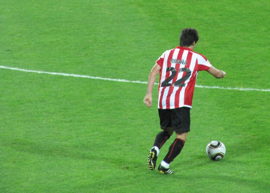 Rodrigo Brana during 2009 FIFA Club World Cup